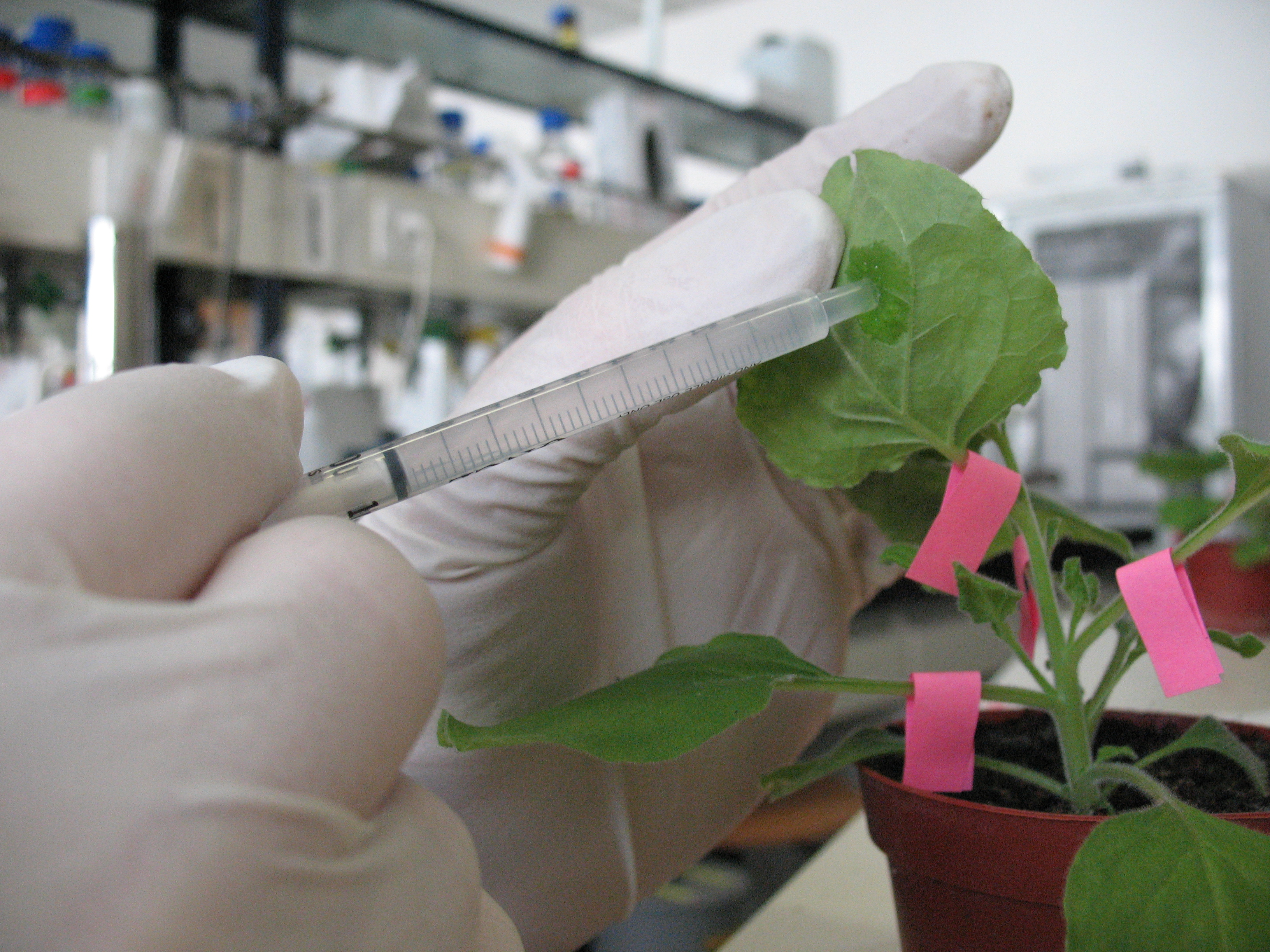 Nicotiana benthamiana levaes agroinfiltration